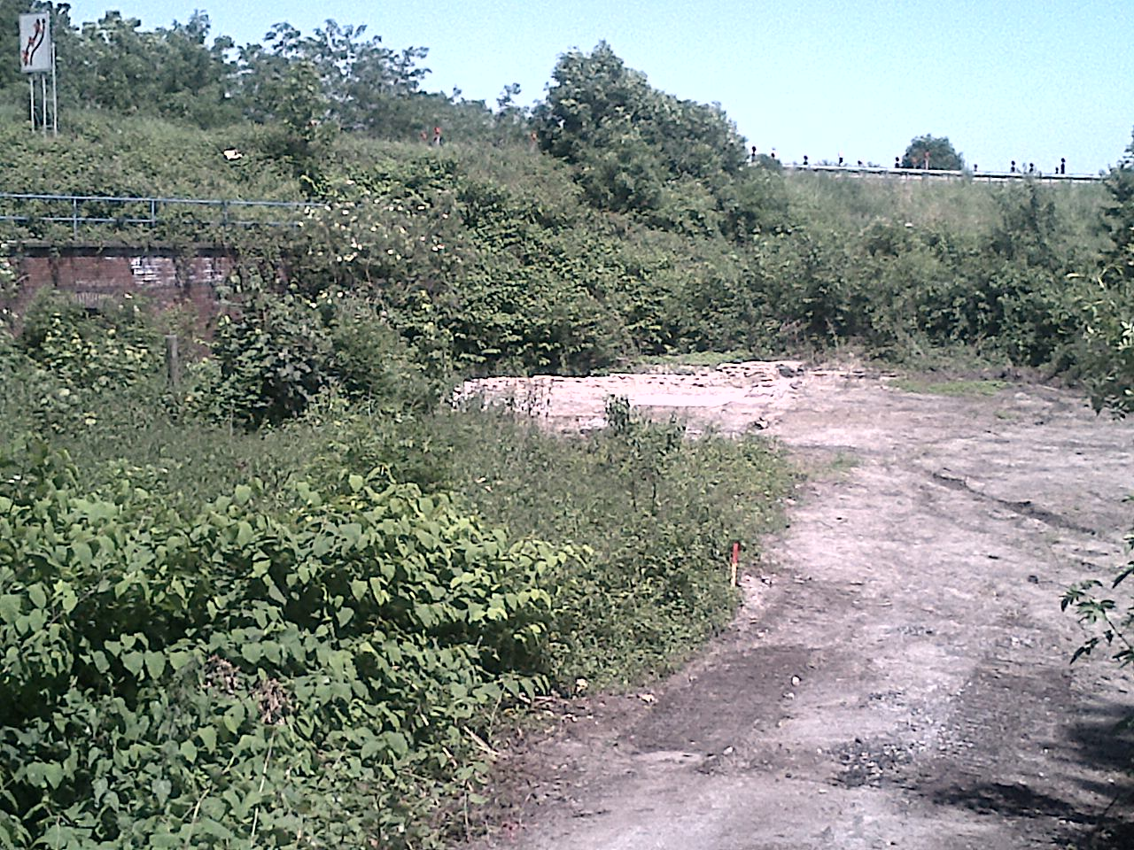 Oil mill Düsseldorf-Angermund after break-down in May 2014